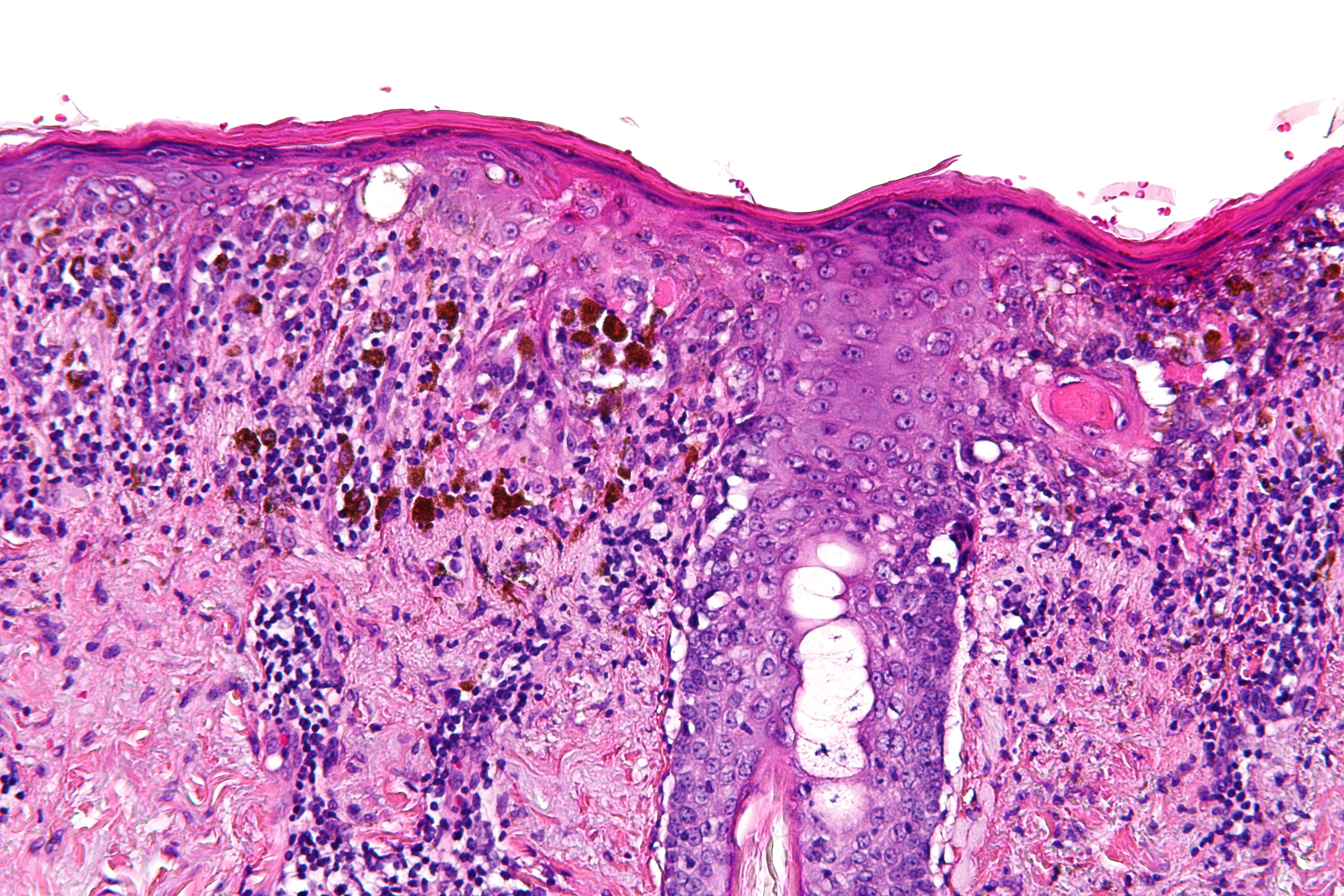 High magnification micrograph of lentigo maligna, also known as melanoma in situ with solar damage. H&E stain. Lentigo maligna should not be confused with lentigo maligna melanoma (LMM). LMM is a melanocytic lesion that has a dermal component.[1] Related images Intermed. mag. High mag. Very high mag. References ↑ (Apr 2006). "Lentigo maligna/lentigo maligna melanoma: current state of diagnosis and treatment.". Dermatol Surg 32 (4): 493-504.